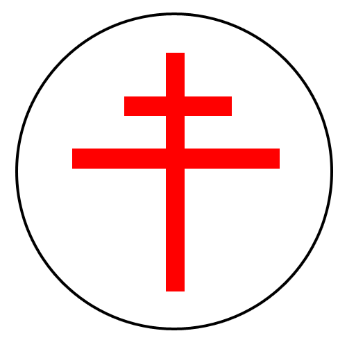 Roundel Logo of the Free French Air Forces (FAFL) during World War II I the creator of this PNG logo hereby release it into public domain. ALKIVAR™18px| 19:37, 14 October 2005 (UTC)